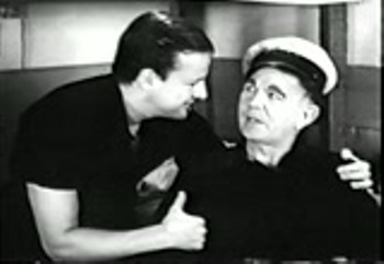 Still with Barry Norton as "Robert" and Jack Barty (listed as J. Barton) as "Captain Jackson" from the Devil Monster (1946). The film, a re-issued version of The Sea Fiend (1936), is a low-budget South Seas drama spiced up with stock footage inserts of half-dressed native girls.